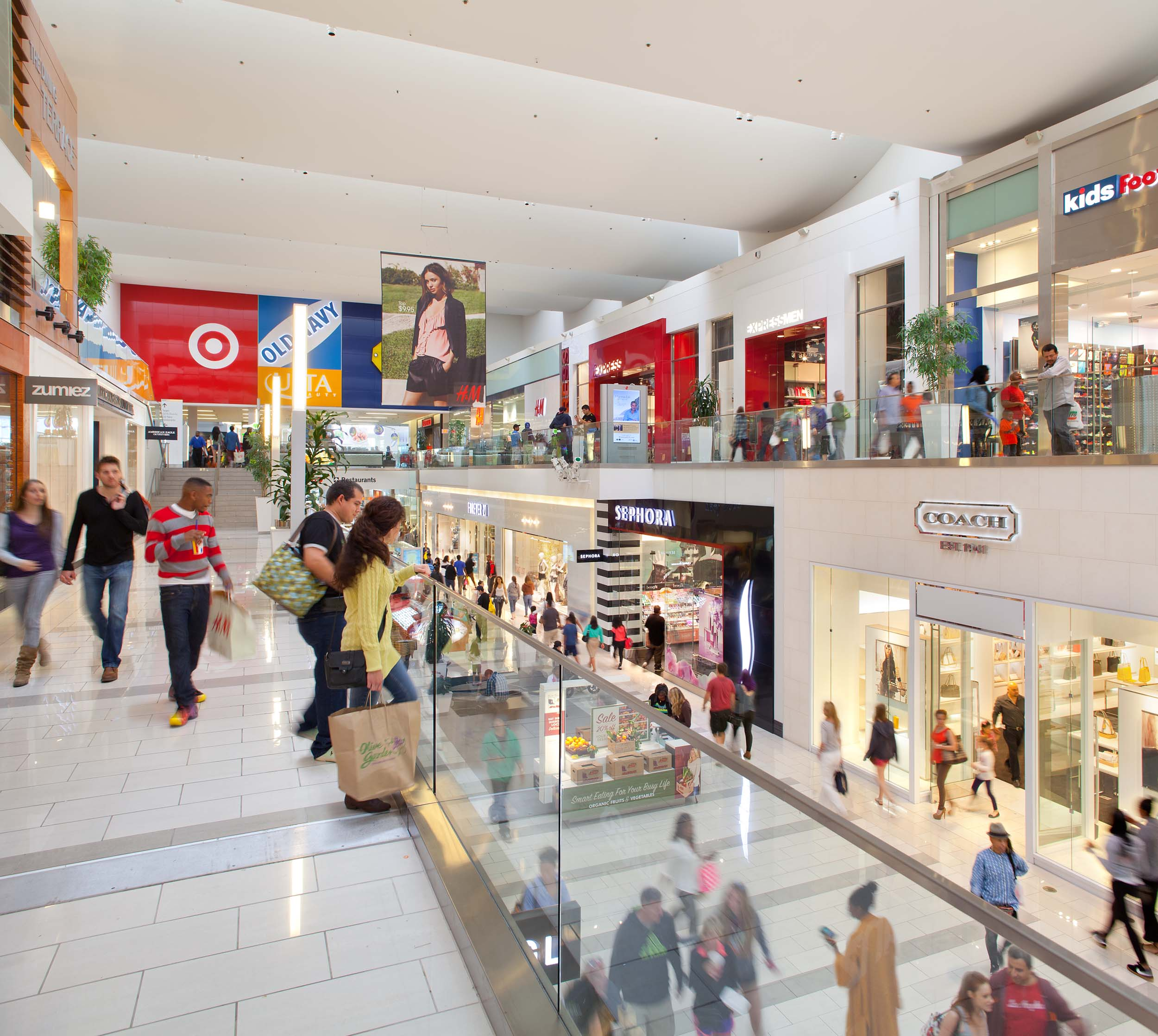 Westfield Culver City Shopping Center